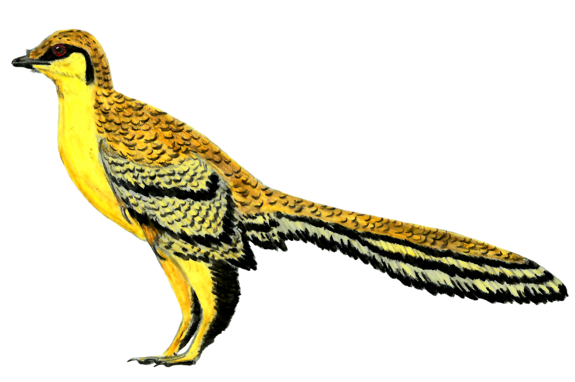 Aurornis xui, a basal member of Avialae from northern China, which lived 160 mya